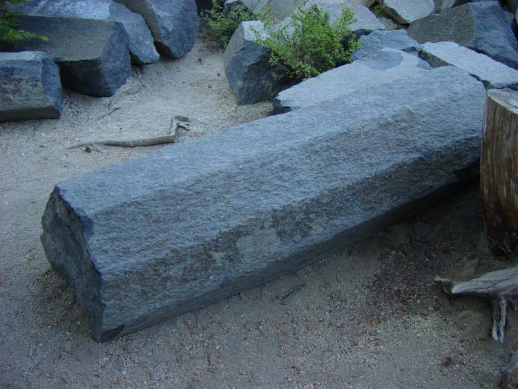 Basalt column lying on its side, Devils Postpile National Monument